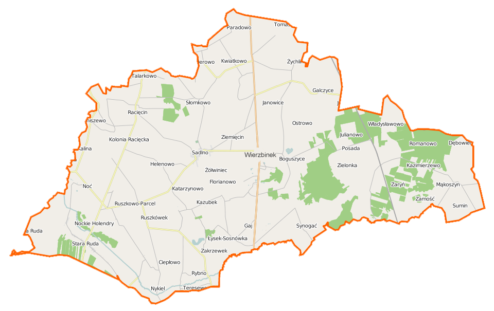 Map of Gmina Wierzbinek, Poland This map of Wierzbinek (gmina) was created from OpenStreetMap project data, collected by the community. This map may be incomplete, and may contain errors. Don't rely solely on it for navigation. Border coordinates52.508318.3345←↕→18.664552.3817